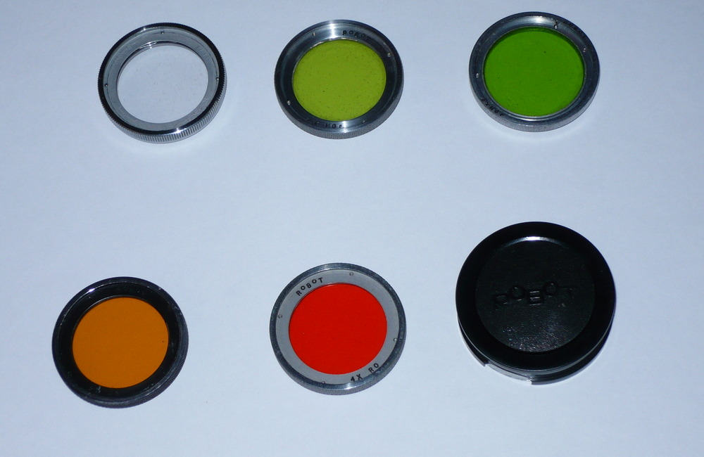 Robot filters